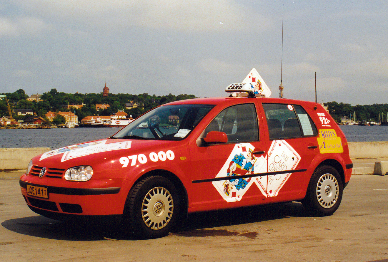 TaxiCard-bil